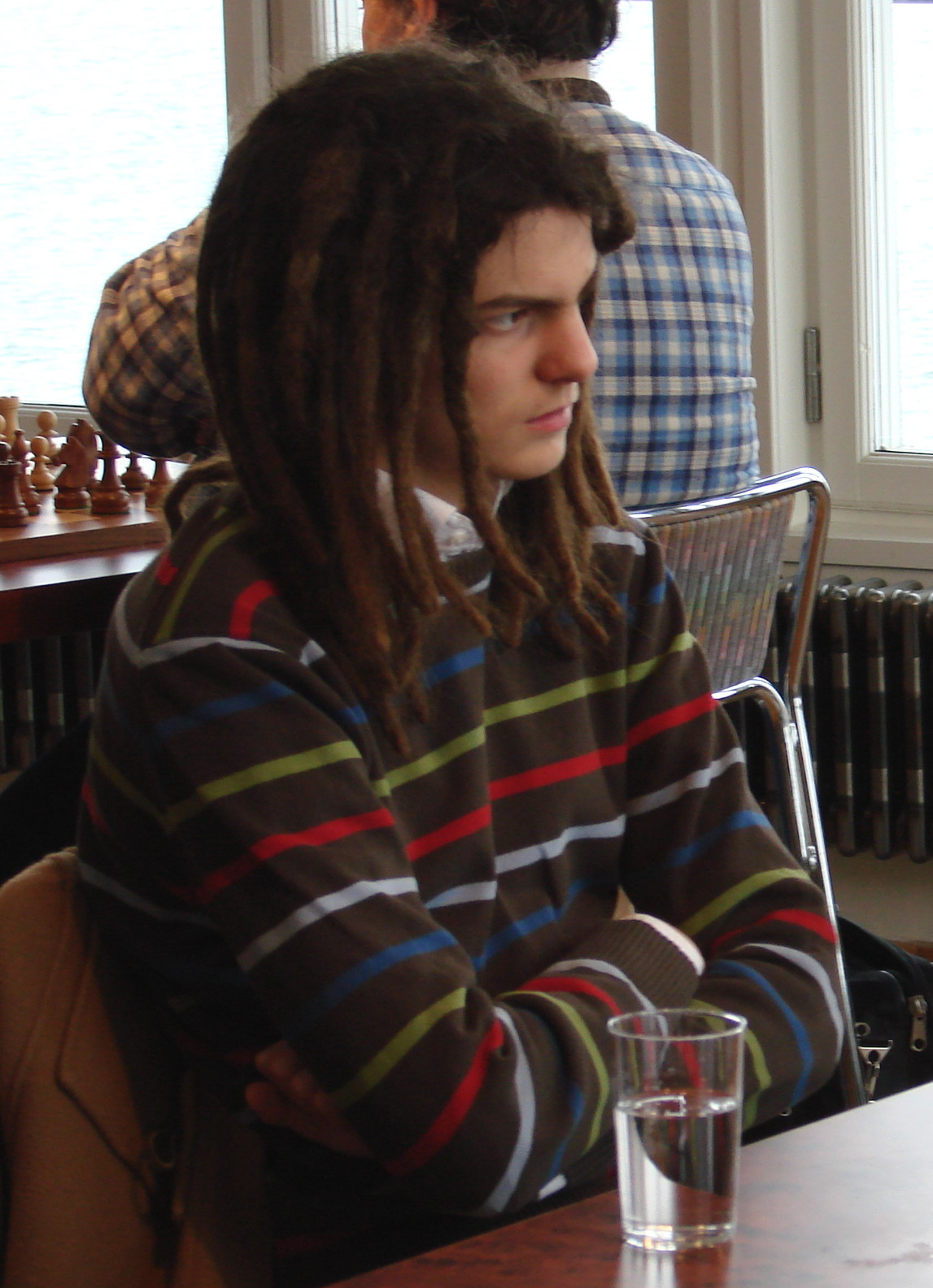 IM Nils Grandelius (Sweden), Rilton Cup Stockholm 2009/10